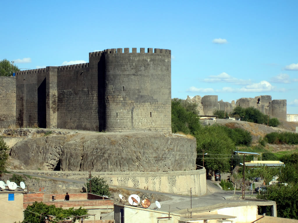 The almost six km of basalt Roman walls at Diyarbakir were erected by Constantine in 359 AD.